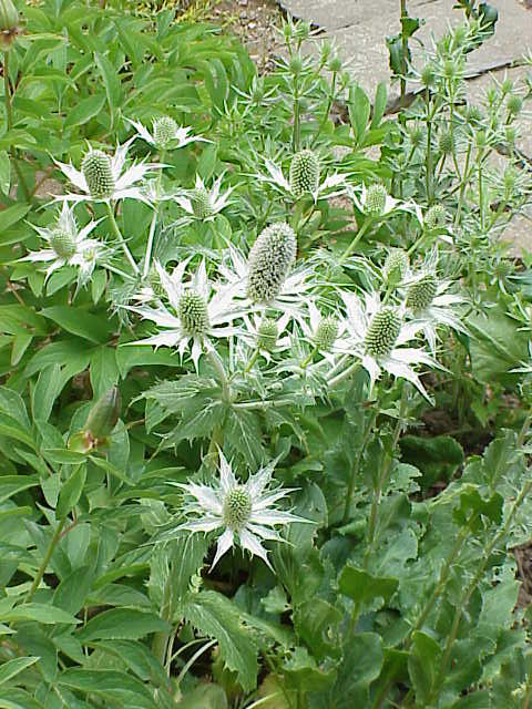 Species: Eryngium giganteum Family: Apiaceae Image No. 2